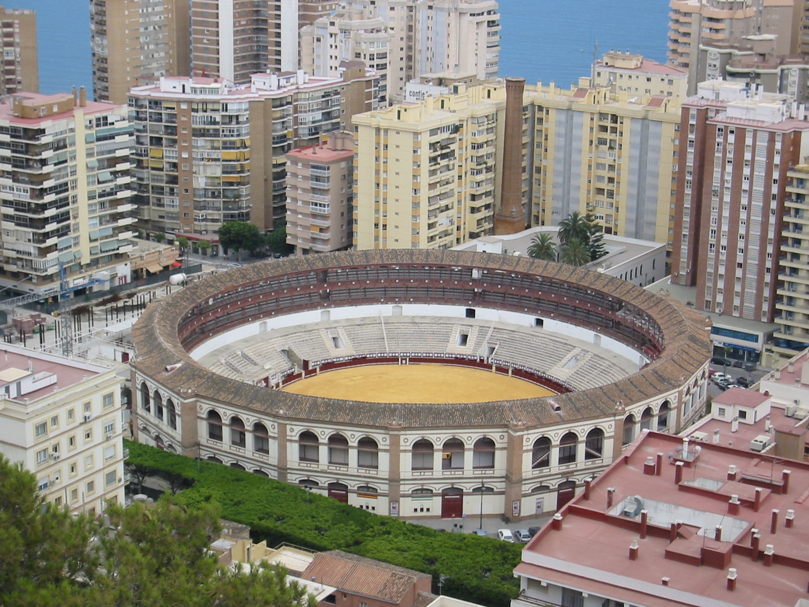 Plaza de Toros (bullring) in Malaga, Spain.